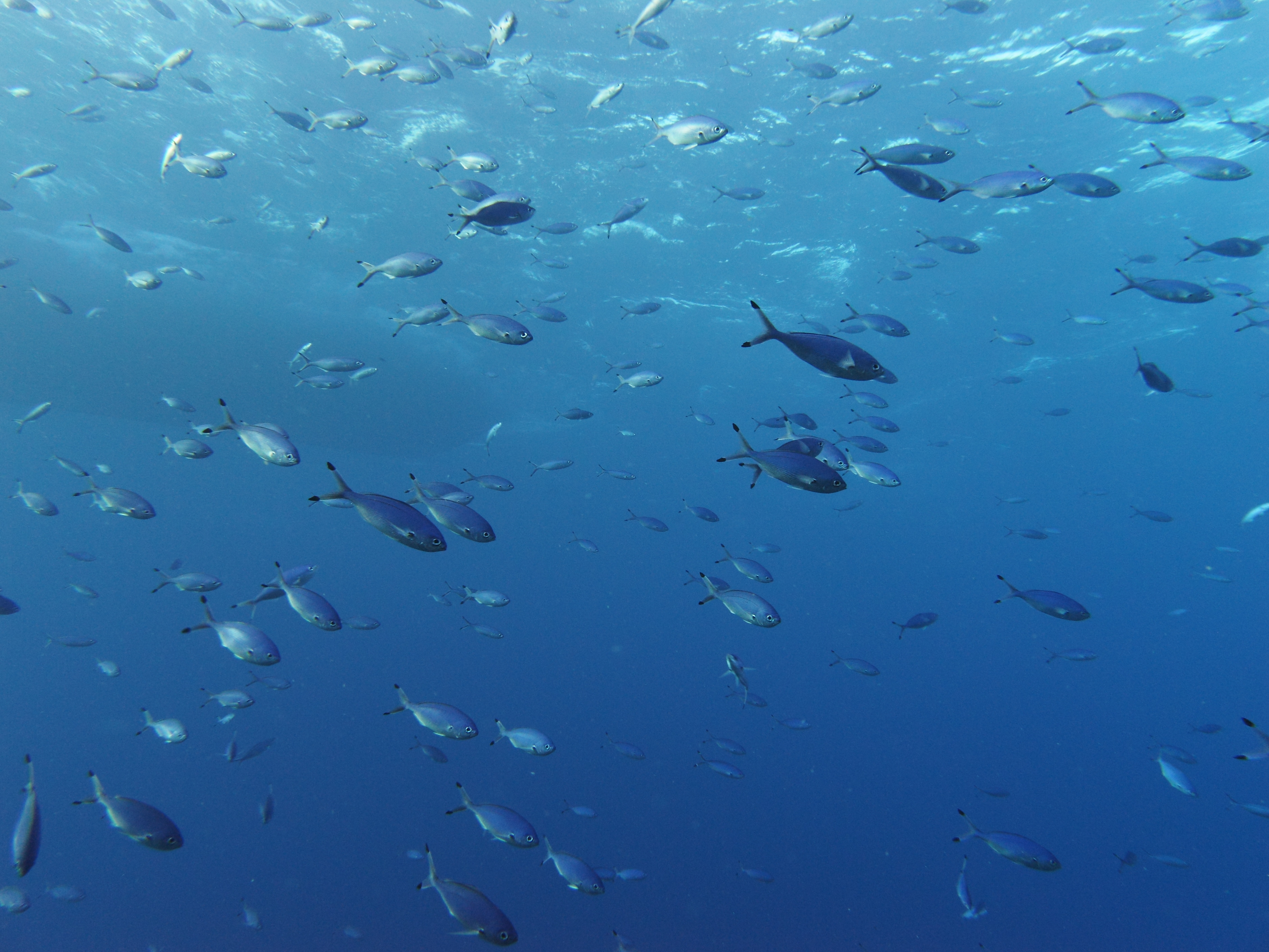 School of lunar fusilier (Caesio lunaris) at Elphinstone Reef (Red Sea, Egypt)